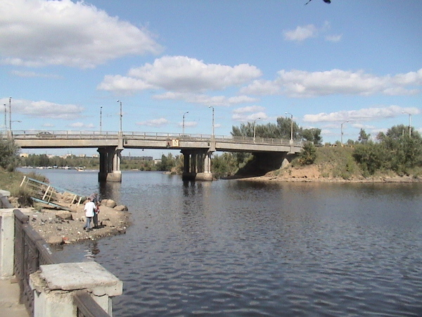 Bridge across river Yagorba in Cherepovets